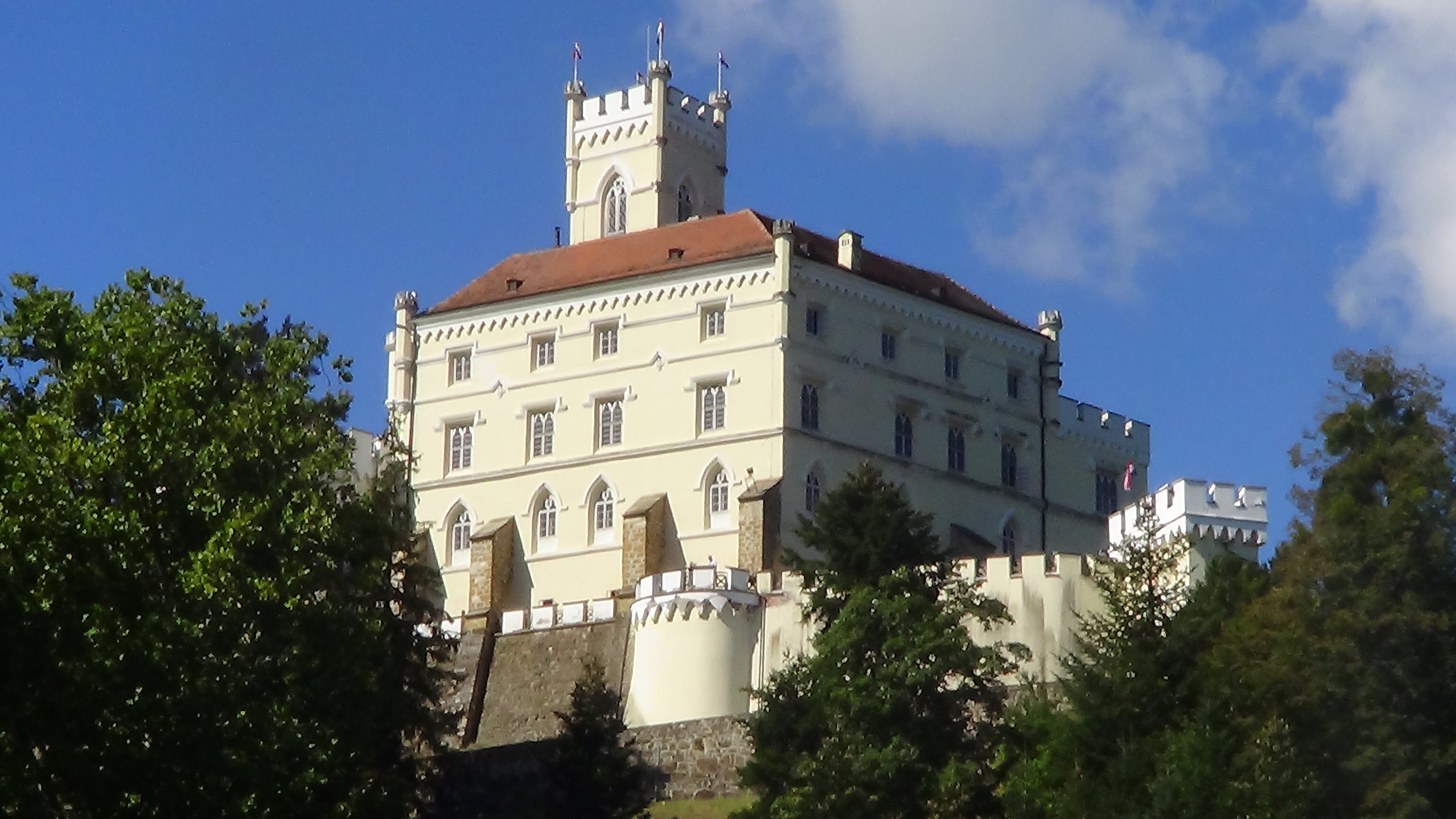 A view on the Castle of Trakoscan in North Croatia